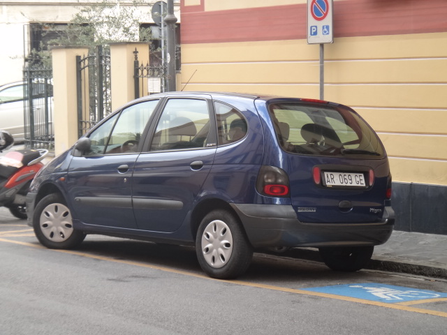 An older Scenic which seemed to be in pretty good condition. I didn't realise they were originally called Megane, with Scenic badging on the rear doors. We never got the Megane-Scenic l, Phase l in Australia and it wouldn't be until 2001 when we would first get the Megane-Scenic and only then, it was the facelifted model Phase ll and it was simply called Scenic, but with small Megane badging on the rear doors, opposite to the Phase l.